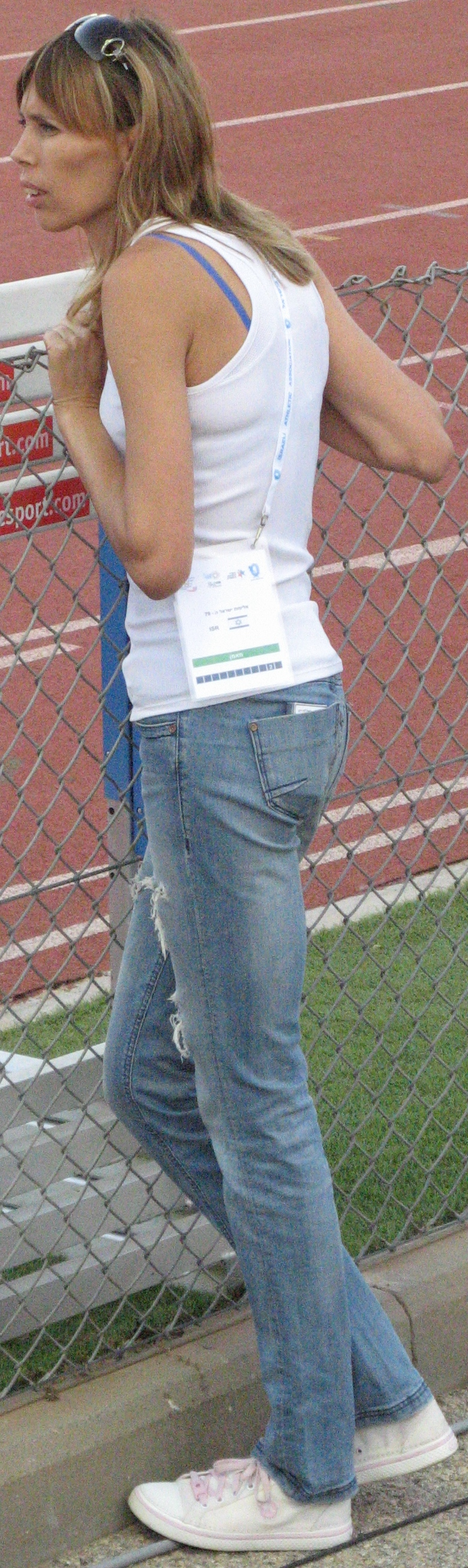 The Israeli former sprinter Irina Lenskiy during the 1st day of the Israel track and field championship 2015.